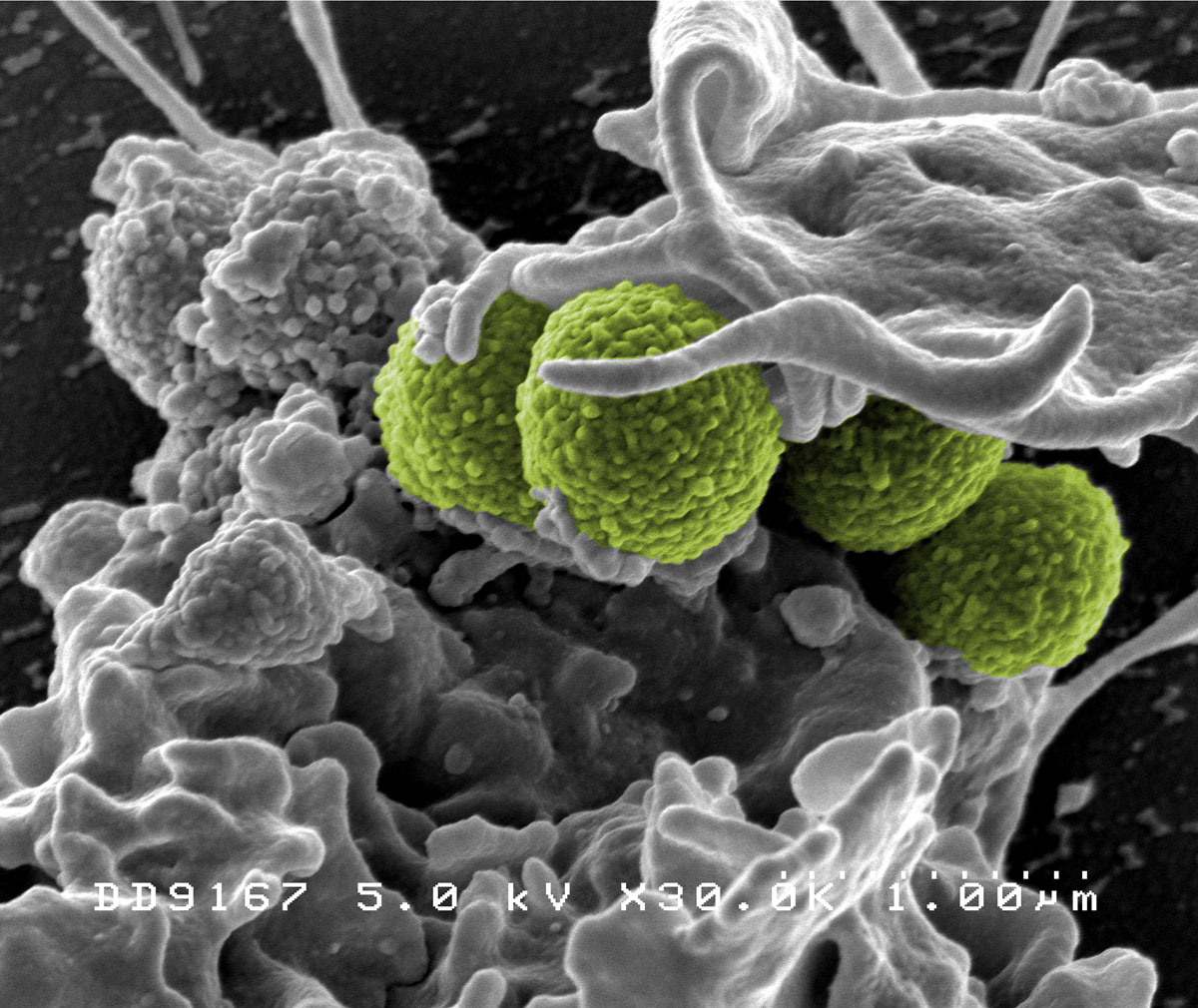 Interaction of MRSA (green bacteria) with a human white cell. The bacteria shown is strain MRSA252, a leading cause of hospital-associated infections in the United States and United Kingdom. Credit: NIAID